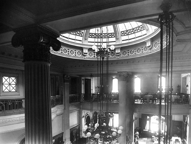 Retiro railway station - Main Dining Room, Tea Gallery - Historical photos - 1915 Image retouched slightly License on Flickr (2010-12-27): CC-BY-2.0 Flickr tags: Estacion Retiro, Buenos Aires, Argentina, Ferrocarril, Tren, Estación, Retiro, linea mitre